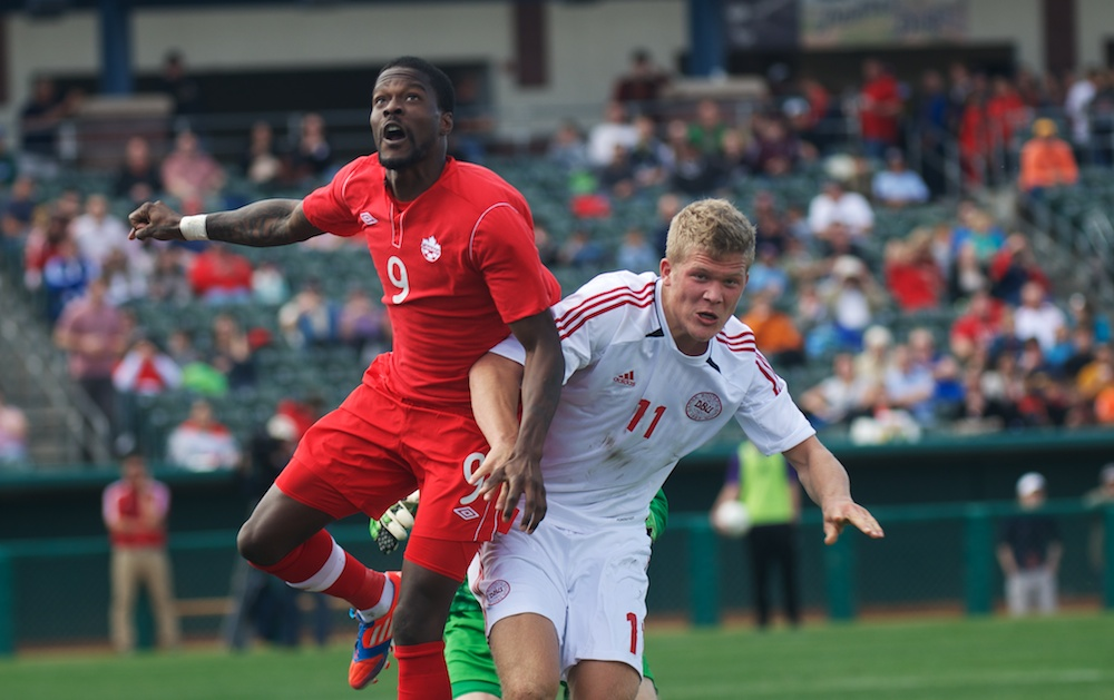 Canadian forward Tosaint Ricketts drops back to help on a corner and rises above Andreas Cornelius to head the ball to safety.